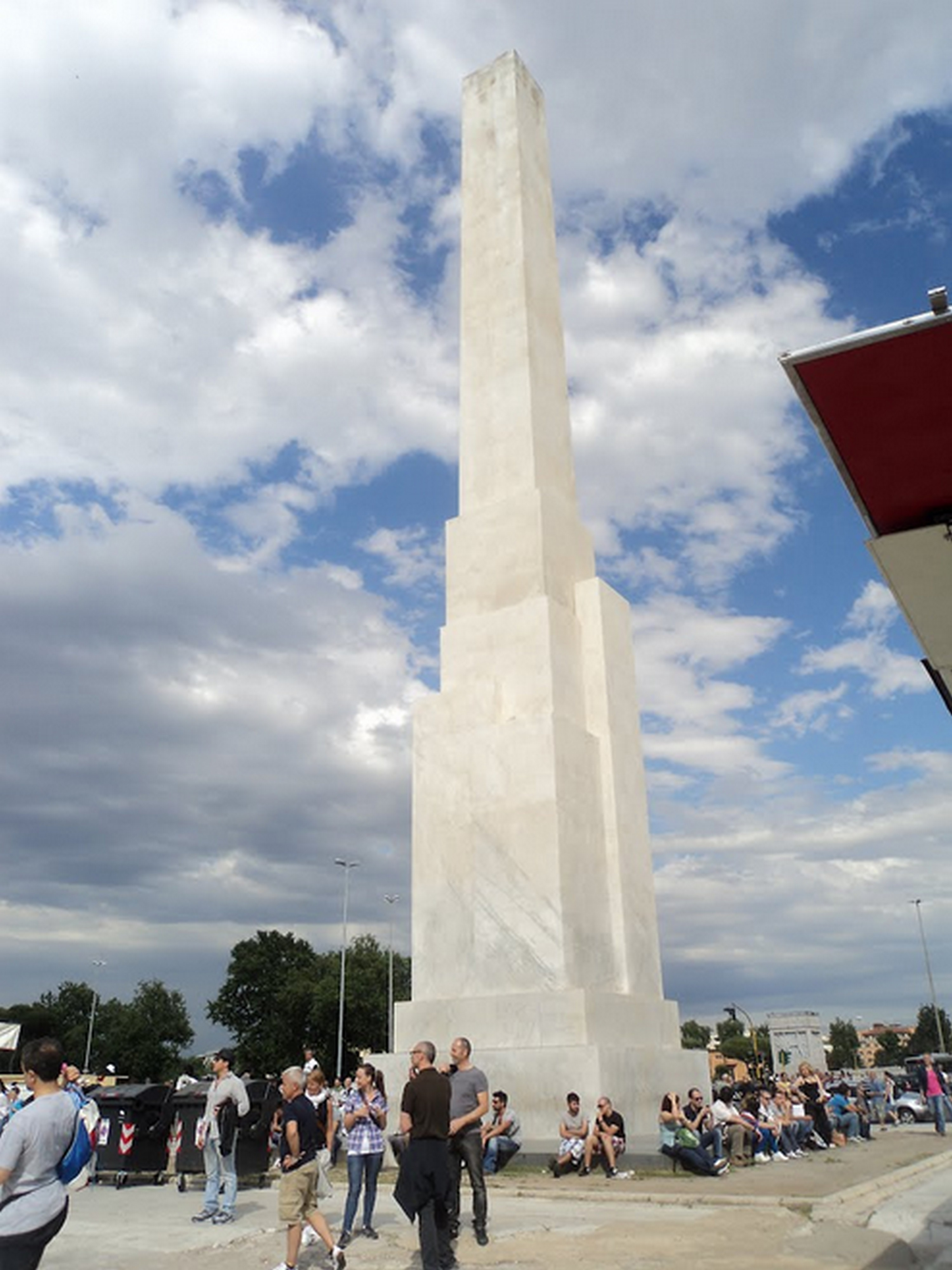 Monolite Mussolini Dux